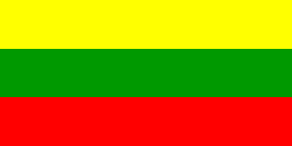 National flag of Lithuania from 1989 to 2004 - ratio 1:2. As from 1 September 2004 the ratio is 3:5